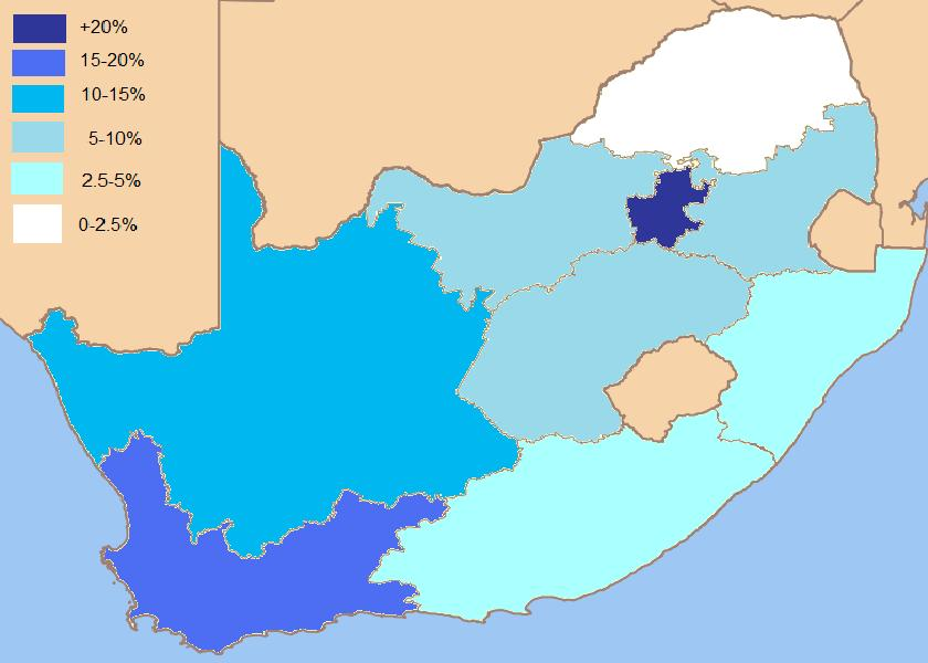 The white population of south africa by province